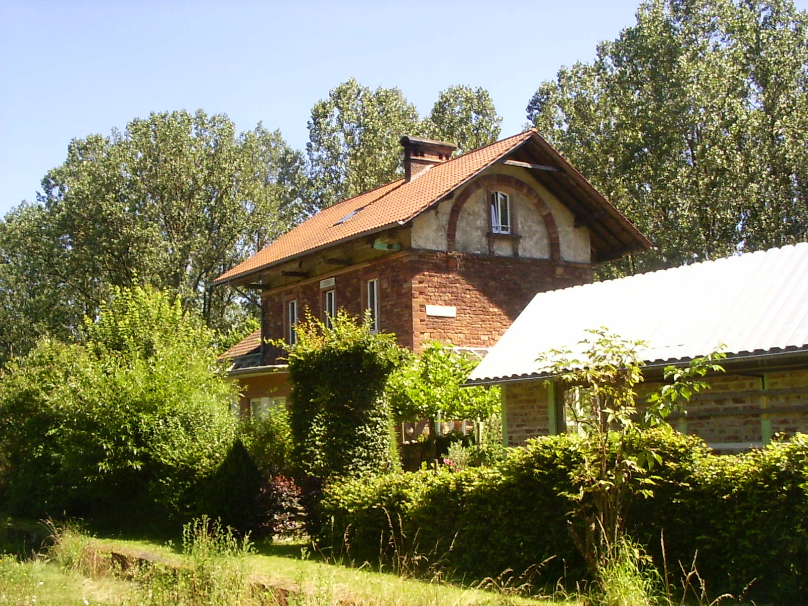 Zerf, former train station